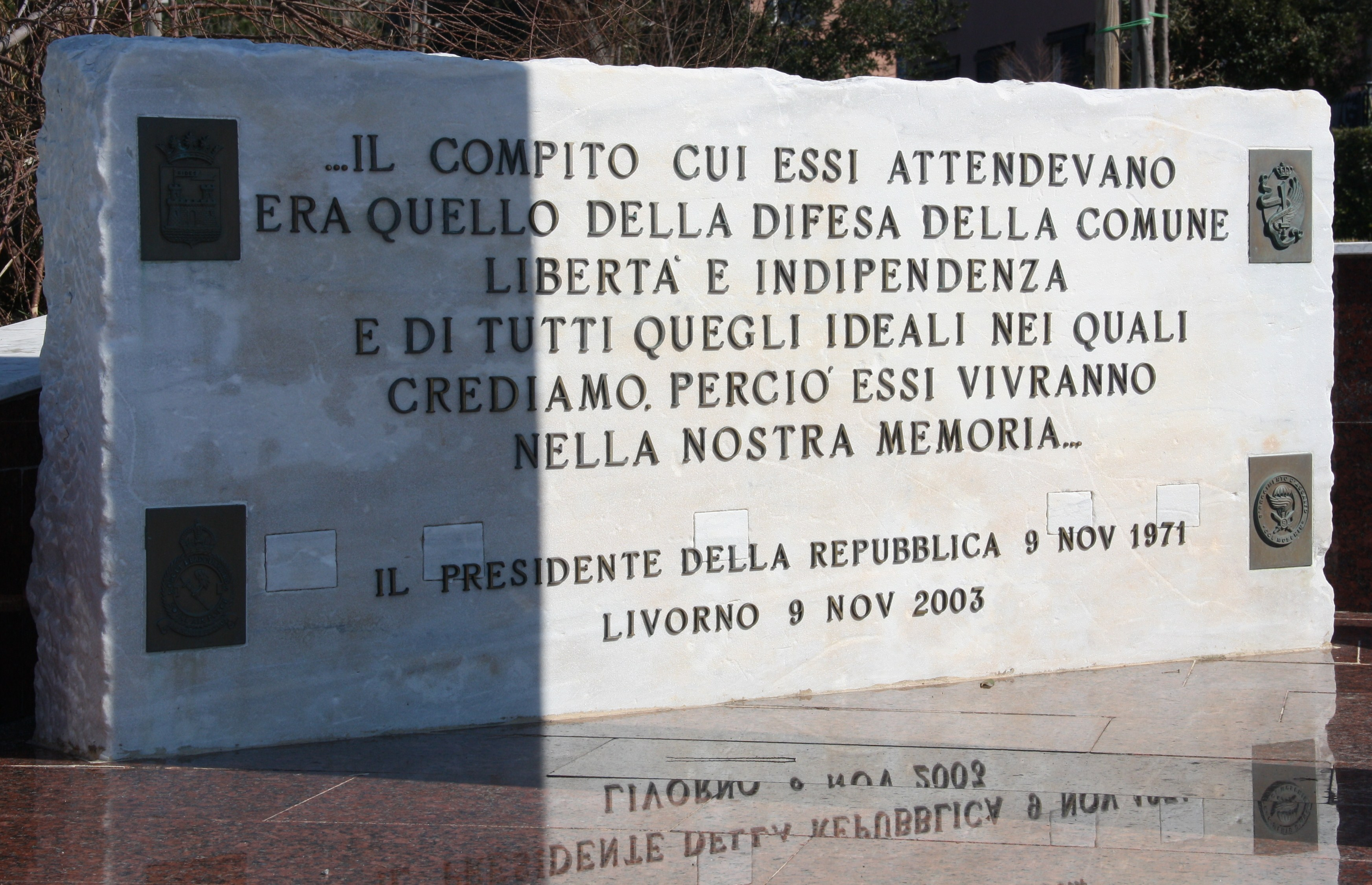 Italy, Livorno, Via Dino Provenzal, Monumento Caduti della Meloria. The monument remembers the accident to the Royal Air Force Lockheed C-130 Hercules CMk1, XV216, crashed into the sea by night near Meloria on November 9, 1971. Six British crew members and 46 Italian paratroopers died.